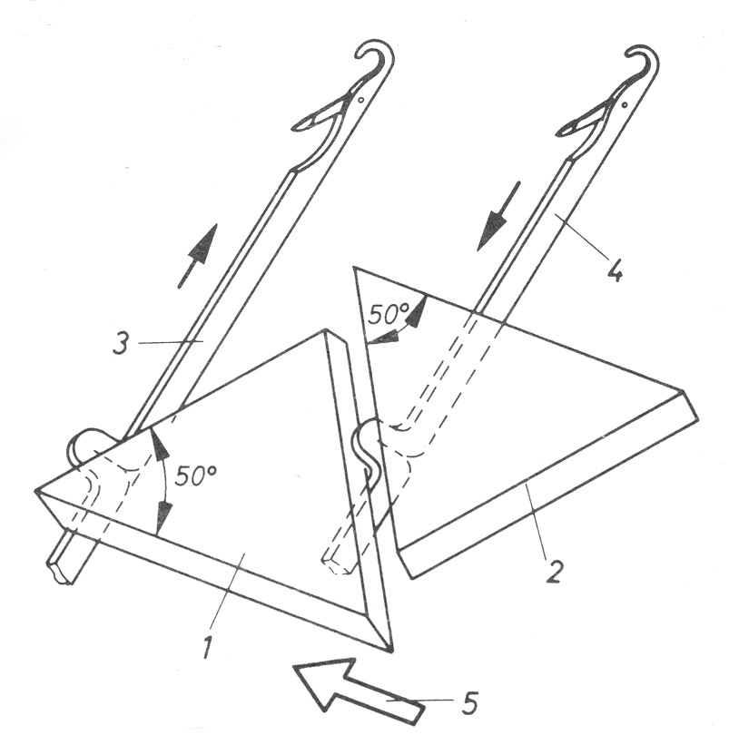 Principle of the function of cams on weft knitting machines. 1: raising cam, 2: stitch cam, 3: rising needle, 4: descending needle, 5: moving direction of the cam system.